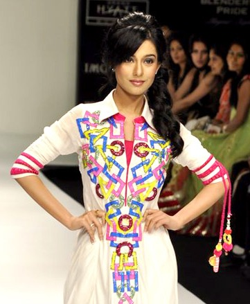 Amrita Rao walks the ramp for Archana Kochar at Lakme Fashion Week 2012- Day 5